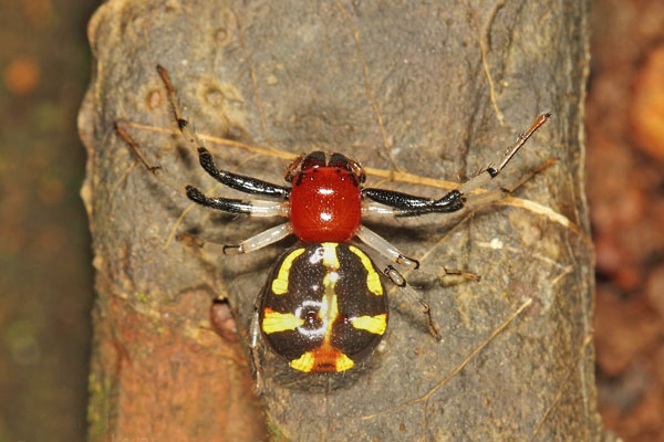 Colourful crab spider from Goa.